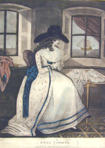 Illustration from 1788 edition of Samuel Jackson Pratt's novel "Emma Corbett"